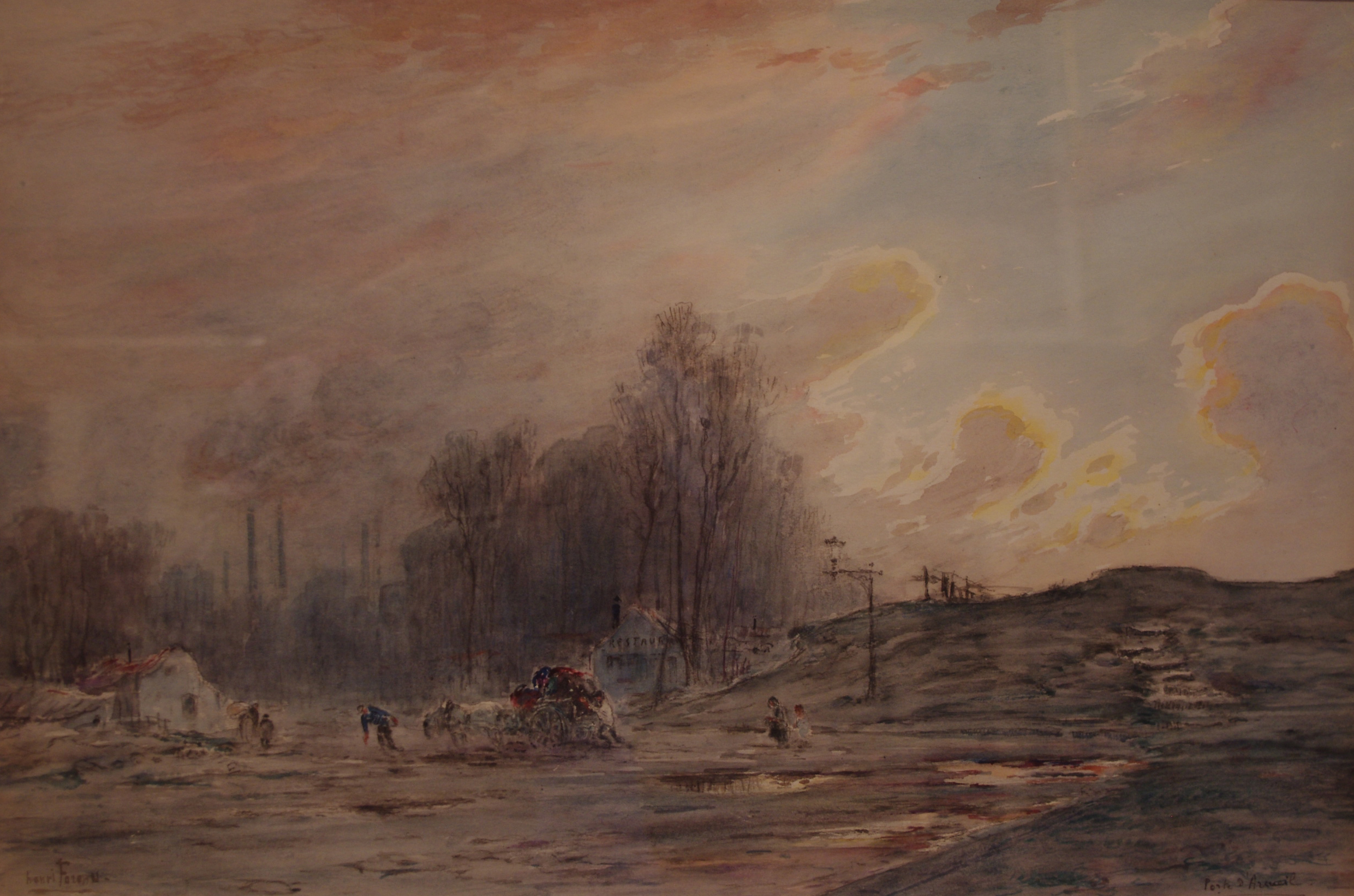 Paint of Henri Foreau